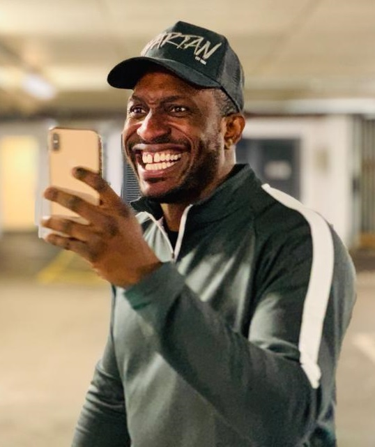 Kevin Stephens (StevoTheMadMan)